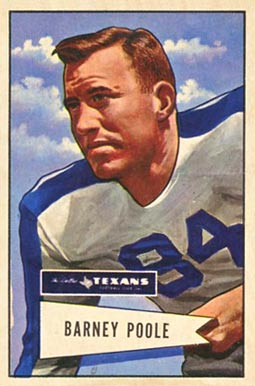 American football player Barney Poole on a 1952 Bowman Large card.